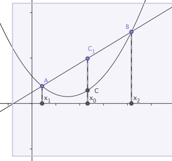 Convex functions